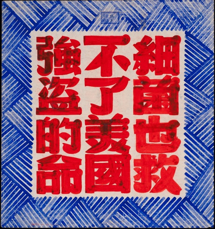 A statement in twelve bold red characters, written in Chinese traditional style and framed with indigo blue pattern, proclaims that not even germs can save American bandits.